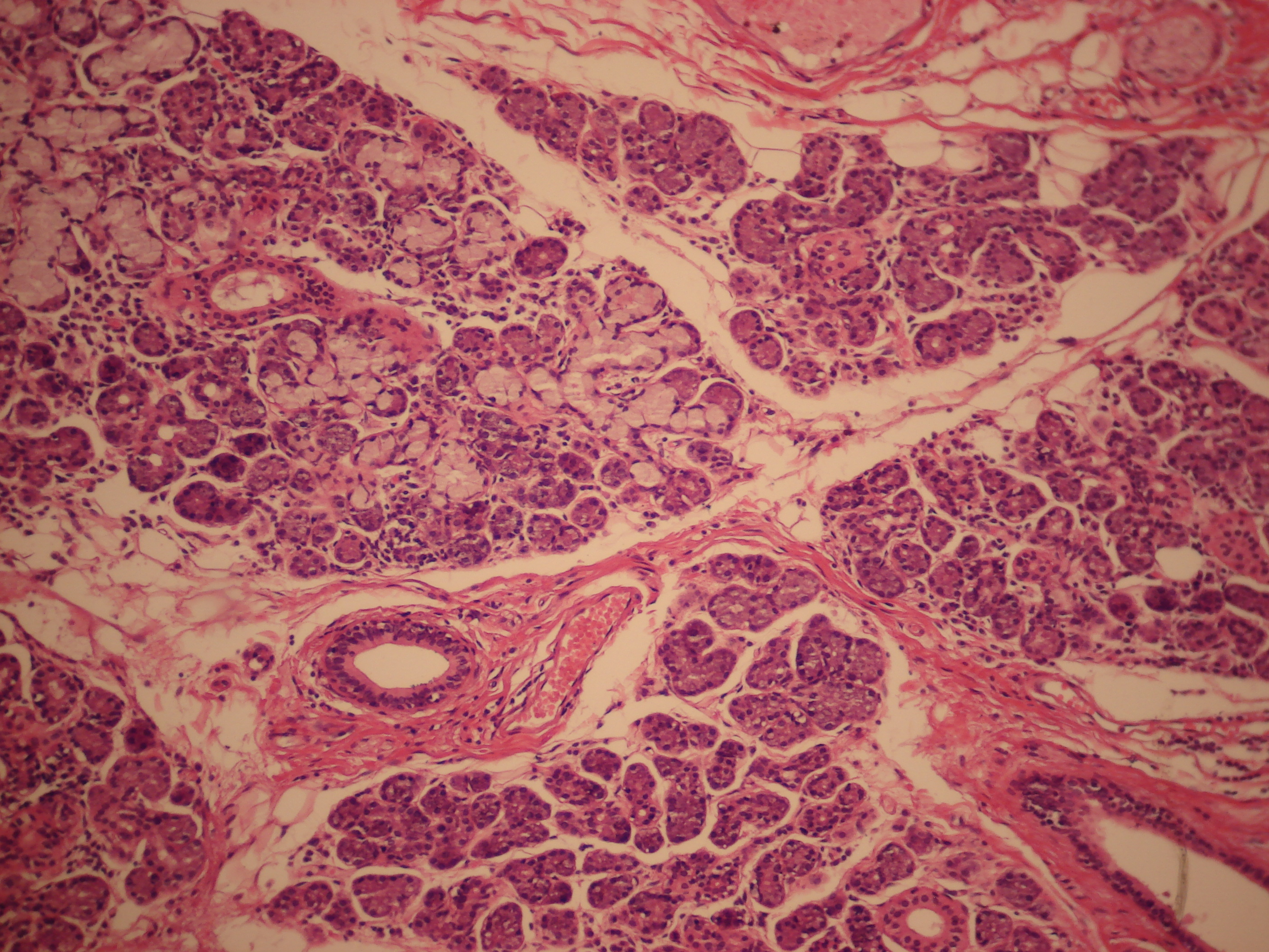 Large ducts are stratified and surrounded by connective tissue. Mucus cell are identifiable by the lack of color in their cytoplasm, while serosal cells have a basophilic color